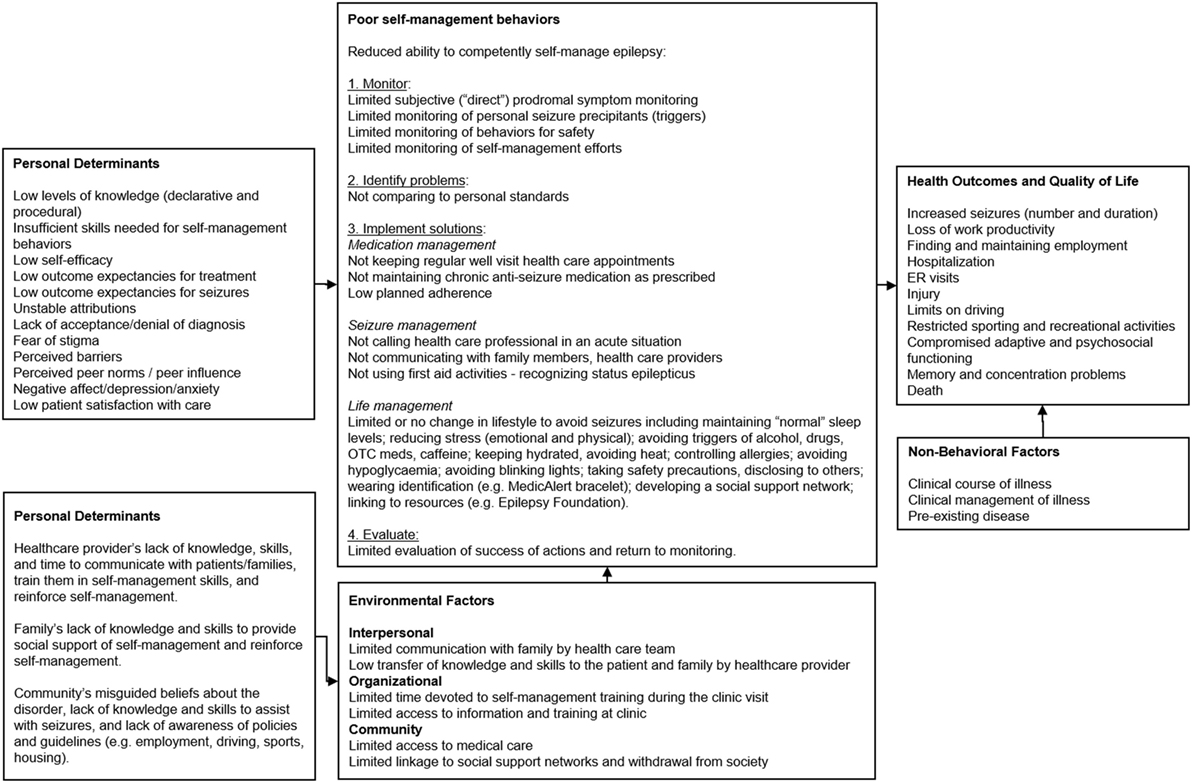 Logic Model of the Problem for Management information Decision Support Epilepsy Tool (MINDSET program). The full intervention mapping based protocol is available in this article